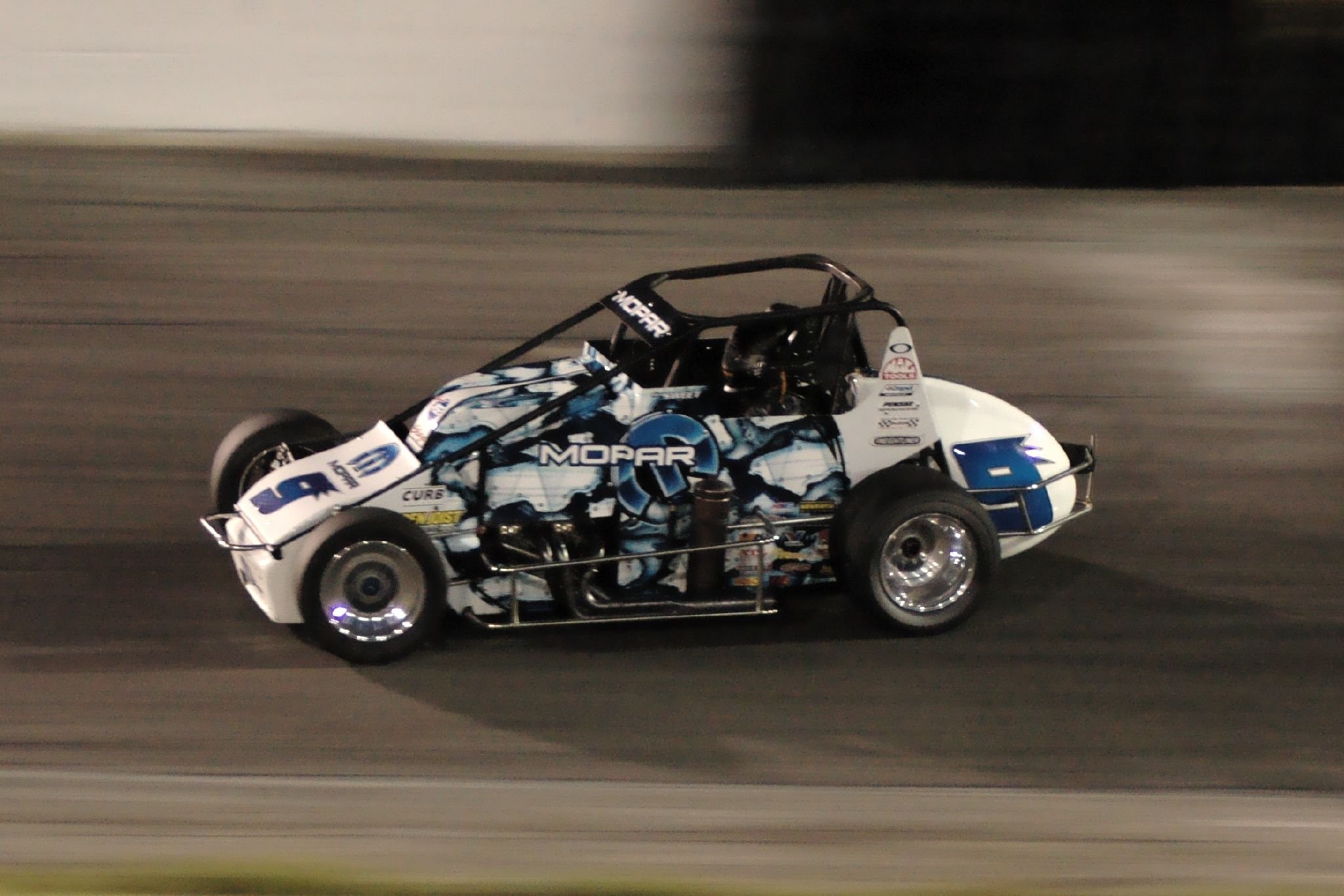 Kasey Kahne Racing USAC Sprint Car driver Brady Bacon at Anderson Speedway in Indiana